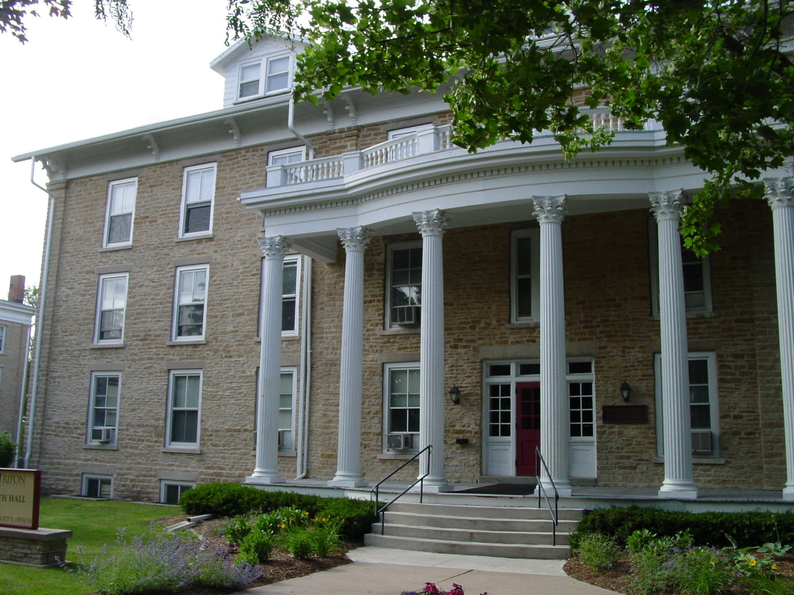 Taken by MadMAxMarchHare. Smith Hall at Ripon College (Wisconsin).